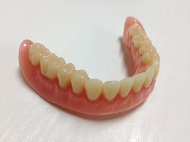 Lower full denture